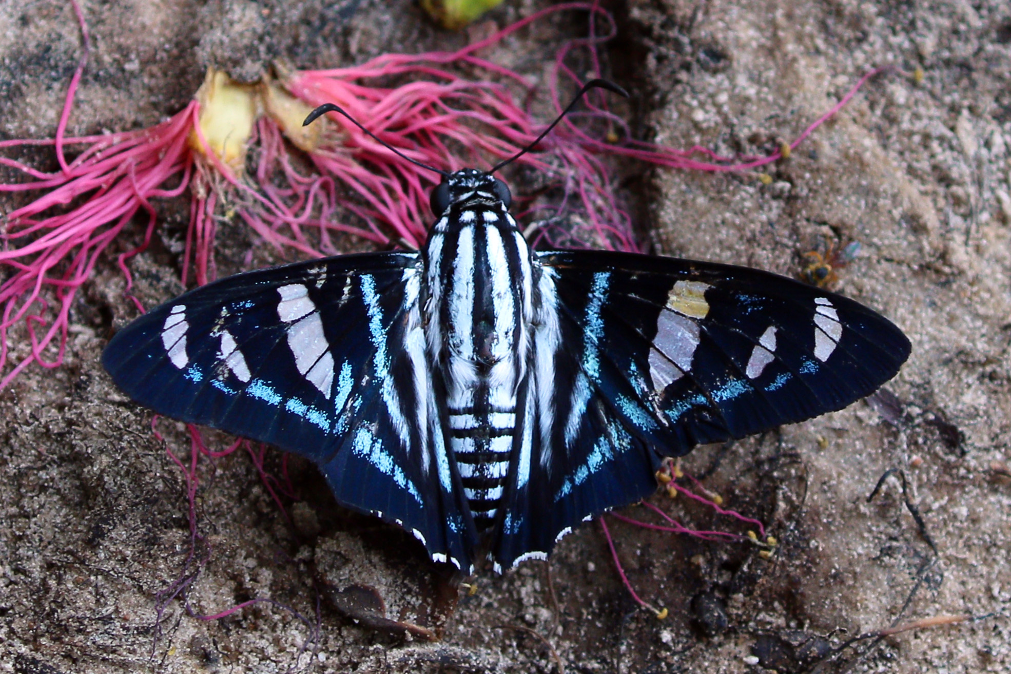 Phodides, or Azetta, skipper (Elbella azeta), Cristalino River, Southern Amazon, Brazil